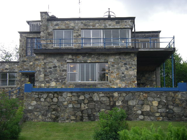 Wilhelm Reich home, laboratory and school. Now a museum in Rangeley, Maine